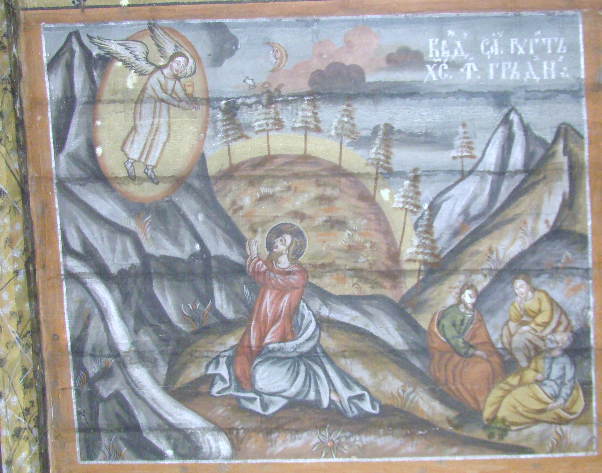 Wooden church in Apoldu de Jos, Sibiu countyRomână: Biserica de lemn din Apoldu de Jos, județul Sibiu